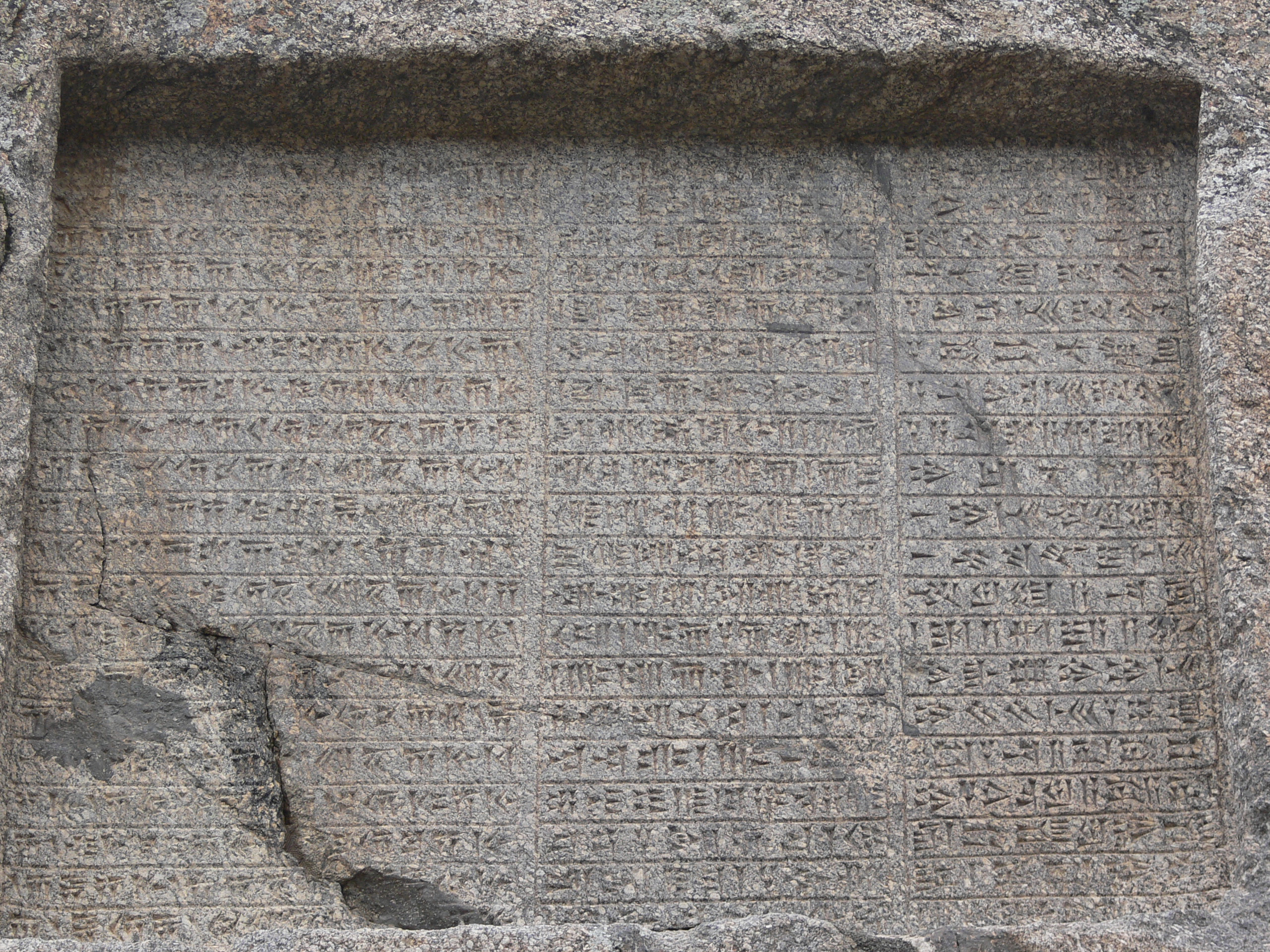 Photo of Achaemenid Darius inscription Ganj Nameh near Hamadan (Iran)